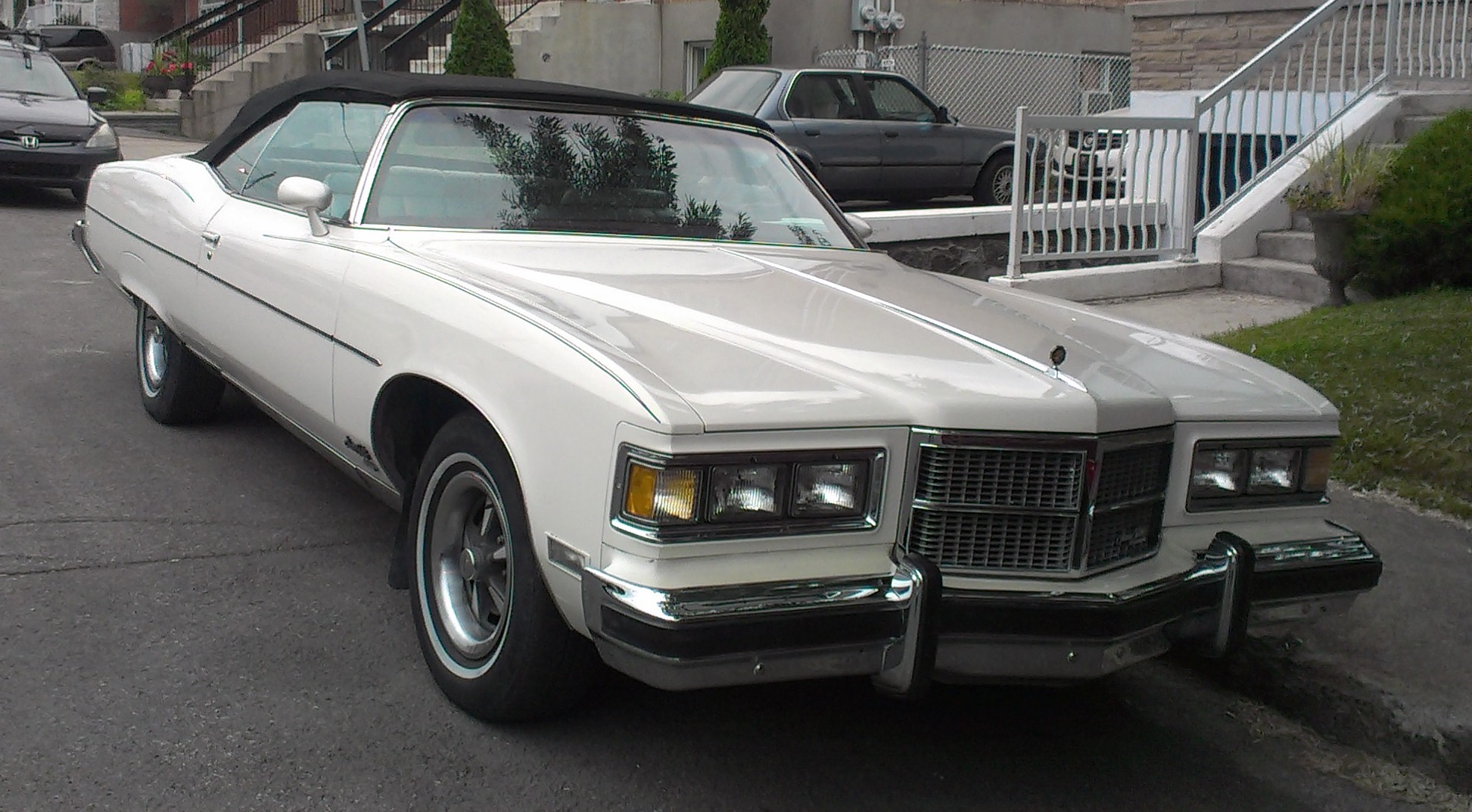 Pontiac Grand Ville photographed in Montreal, Quebec, Canada.